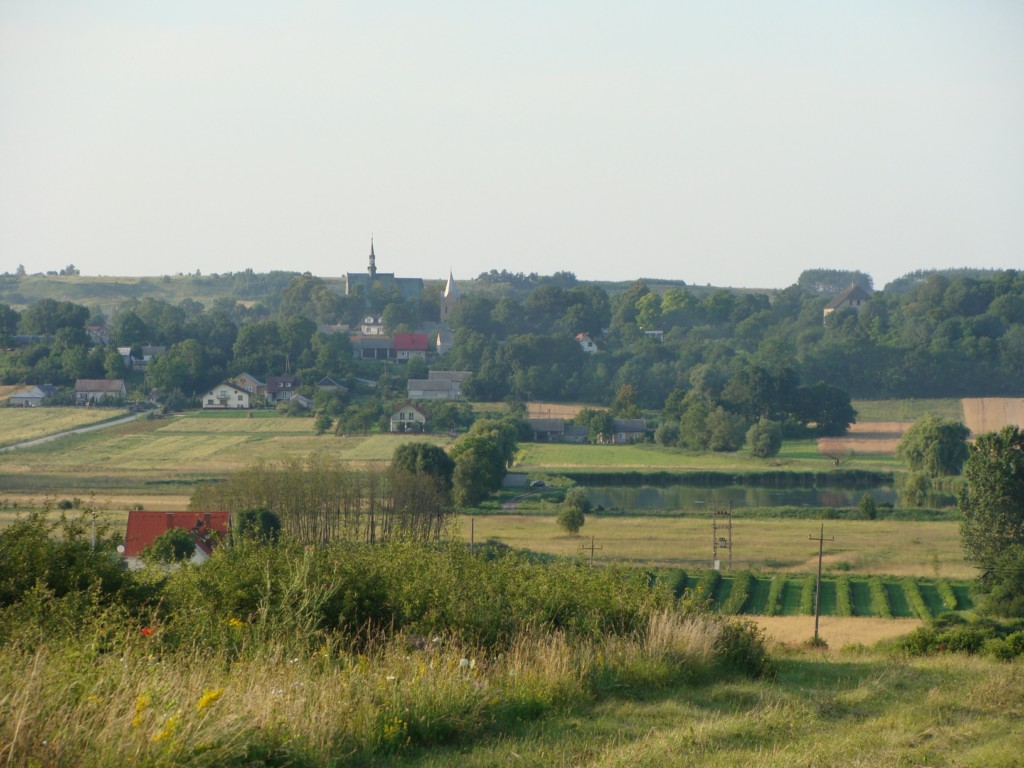 Panorama of Szaniec, Świętokrzyskie Voivodeship